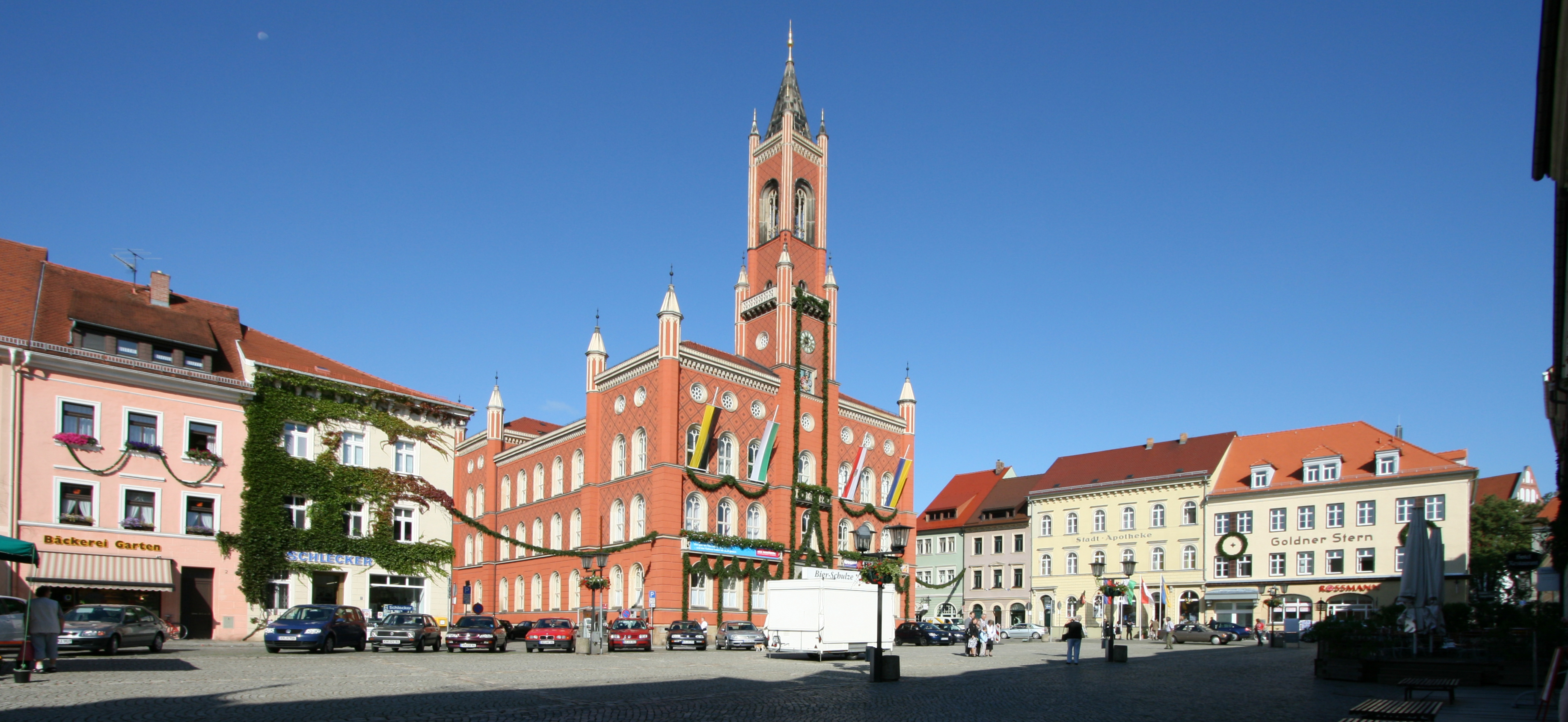 Kamenz (Germany, Saxony), market place